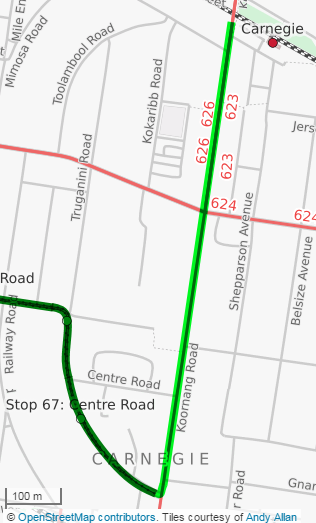 A map of the proposed extension to the Route 67 tram in Melbourne ending at Carnegie Station. Dark green (on the bottom left) shows the current route, light green shows the proposed route, red lines show bus routes. Created with OpenStreetMap and .